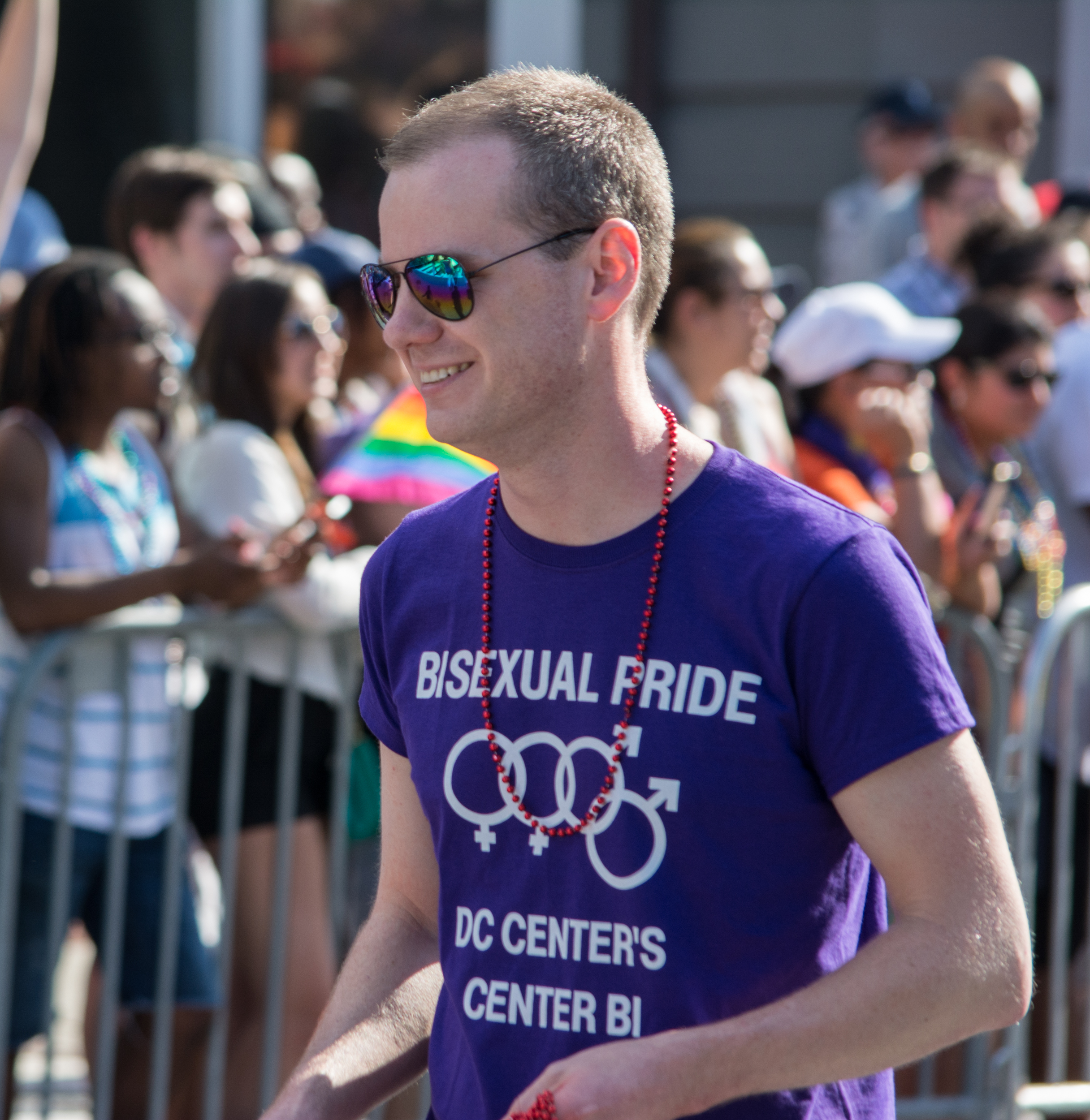 A supporter of bisexual pride marches in the 2014 D.C. Capital Pride parade, held in Washington, D.C., in the United States on June 7, 2014.